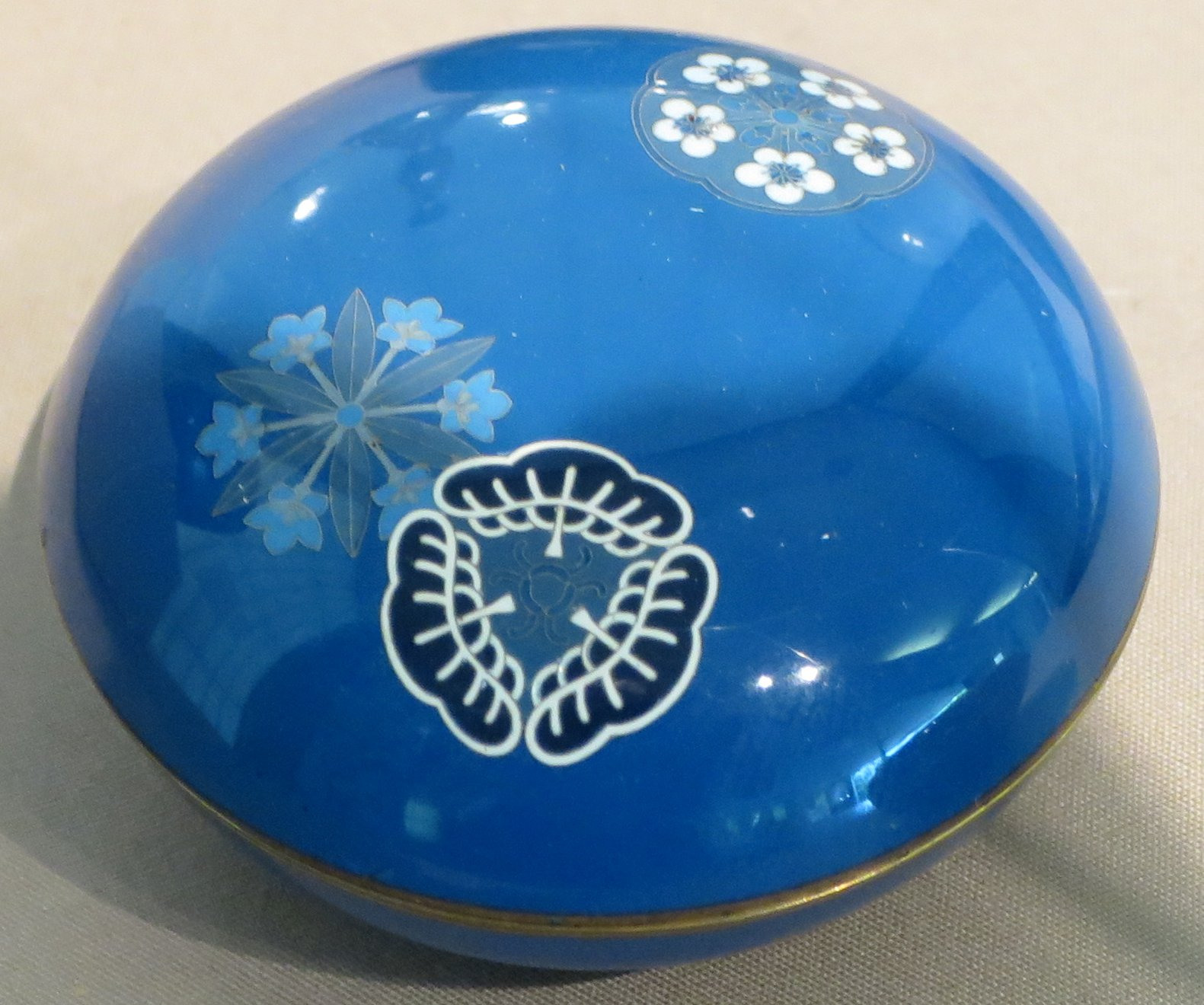 Cloisonné incense container with pine, plum and bellflower roundels by Namikawa Yasuyuki, c. 1905-10, LACMA